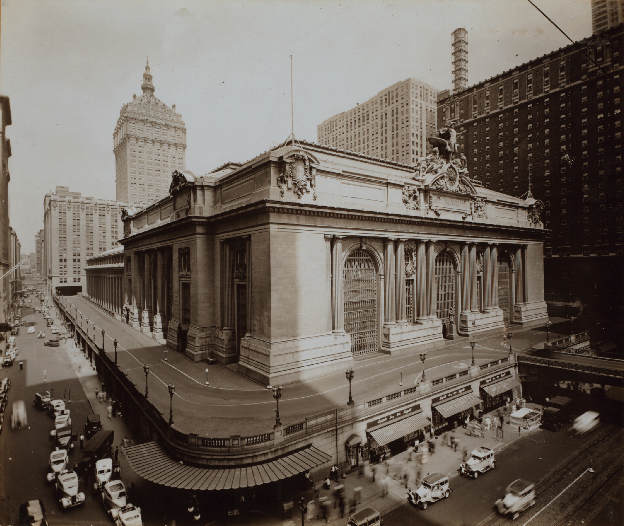 Grand Central Terminal, photographed as part of the WPA Federal Writers' Project, as noted in both of the below sources. WPA images are in the Public Domain.